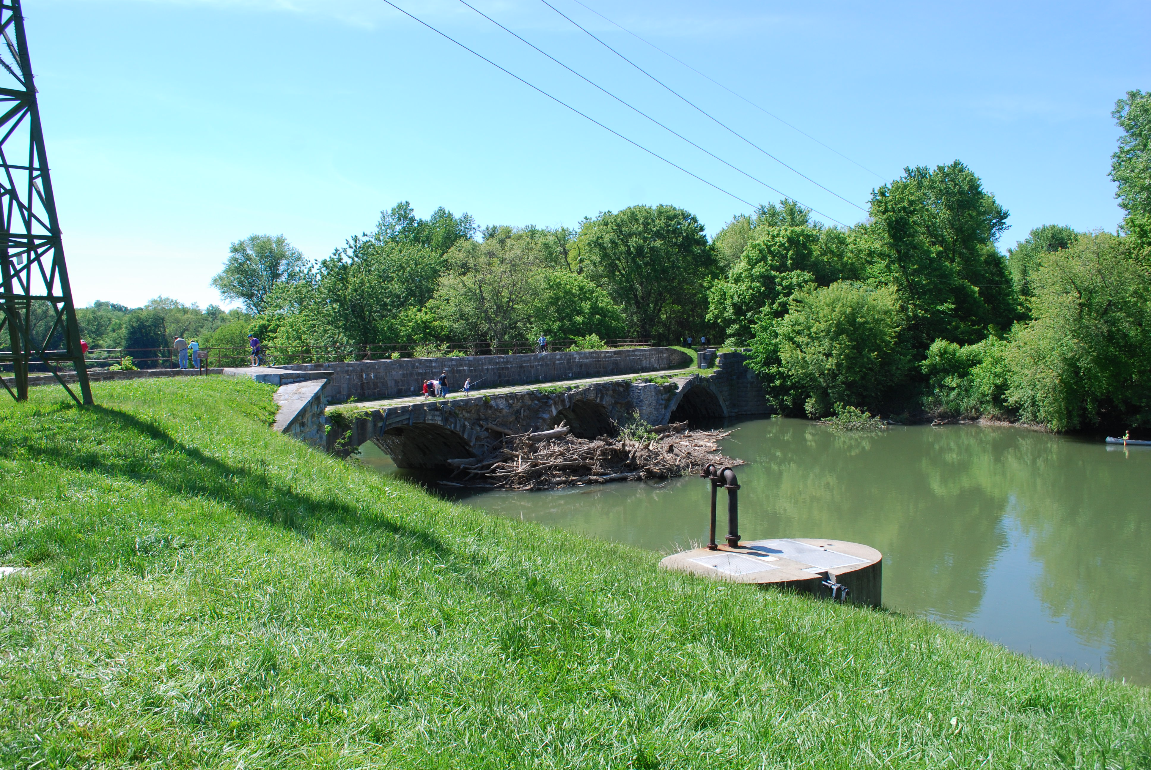 Conococheague Creek Aqueduct along the Chesapeake & Ohio Canal near Williamsport, Maryland.